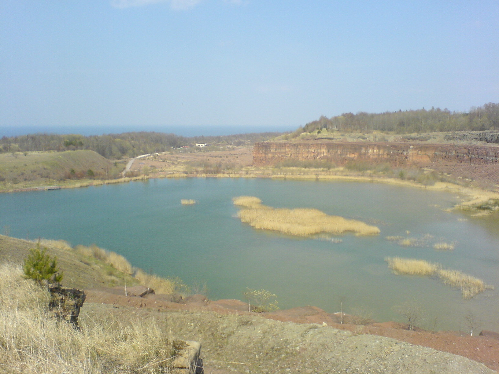 An artificial lake filling an old limestone quarry at Hällekis, Kinnekulle, Sweden.